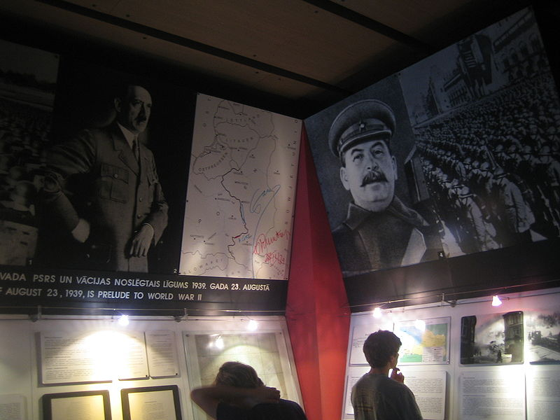 exposition of the Museum of the Occupation of Latvia